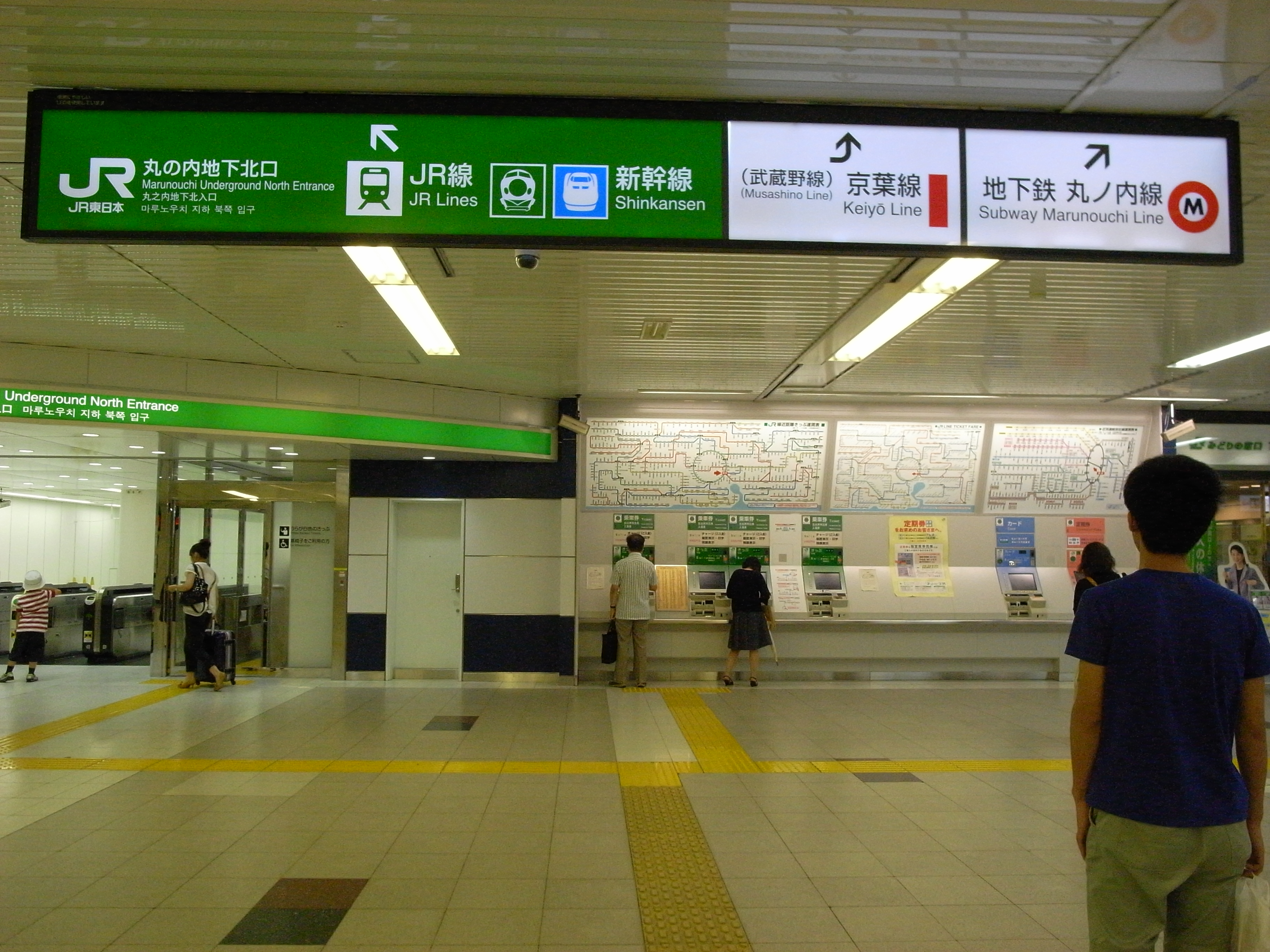 Signboard at Marunouchi Underground North Gate in Tokyo Sta.